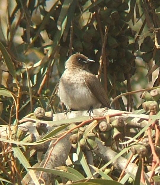 Common Bulbul Pycnonotus barbatus barbatus, Oued Massa National Park, Morocco